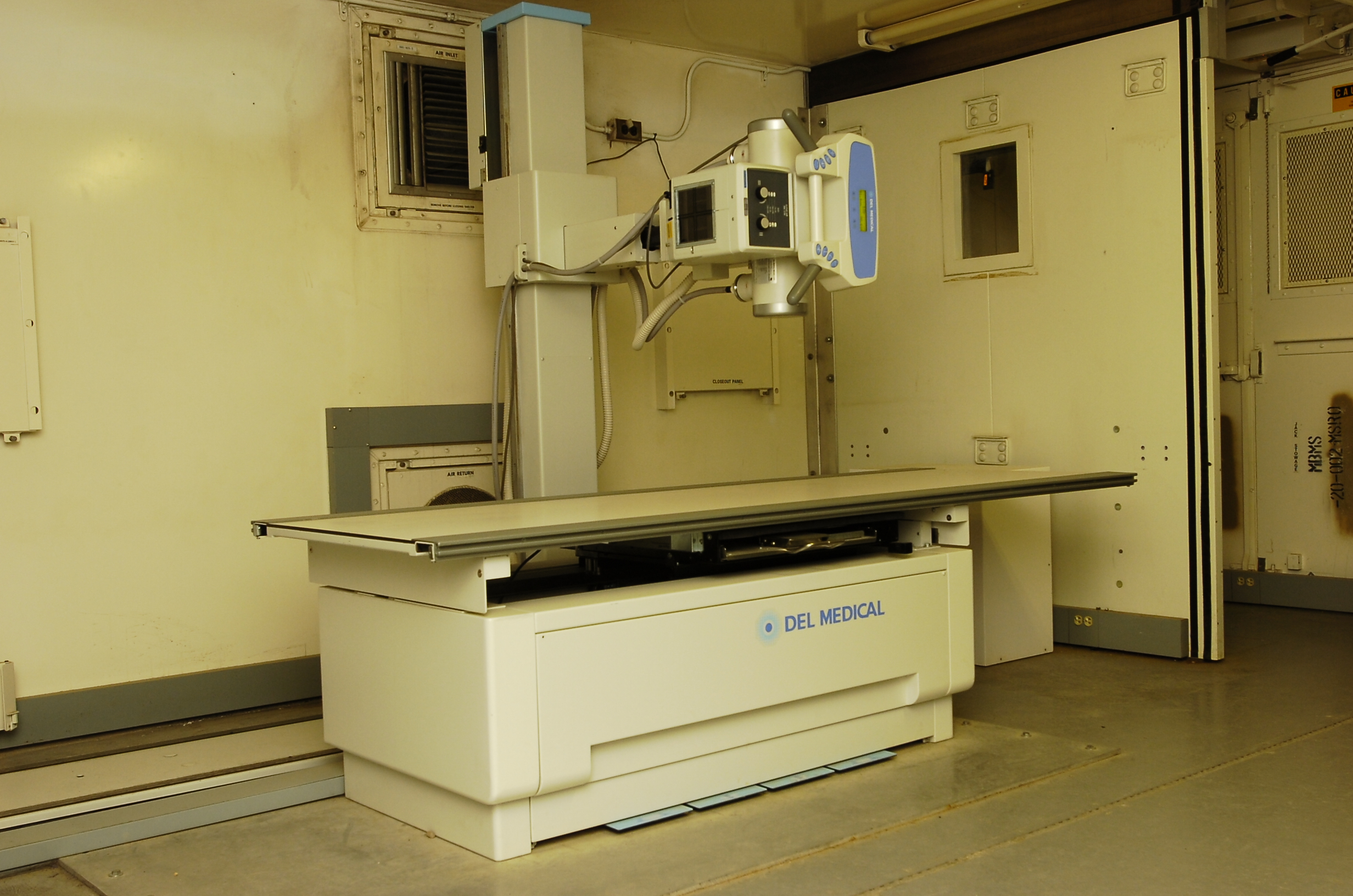 GUANTANAMO BAY, Cuba- A state-of-the-art X-Ray machine located in the detainee hospital in Camp Delta. Detainees are treated at a dedicated medical facility with equipment and an expert medical staff of more than 100 personnel. The medical facility is equipped with 20 inpatient beds (expandable to 30), a physical-therapy area, pharmacy, radiology department, central sterilization area, and a single-bed operating room. Oct. 17, 2007. (Joint Task Force Guantanamo photo by Army Sgt. Joseph Scozzari)